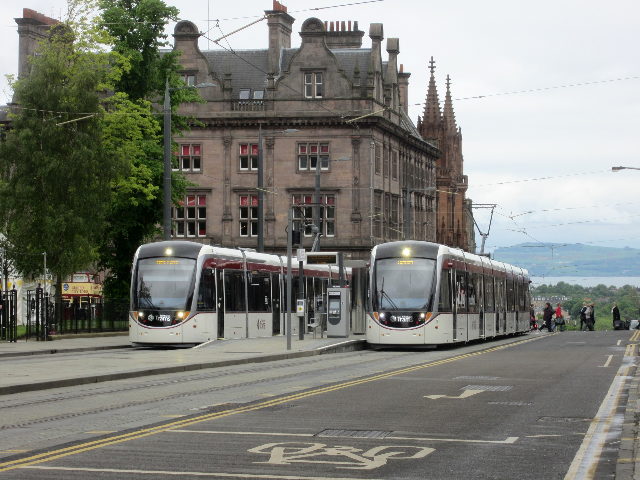 Trams at St Andrew Square, Edinburgh